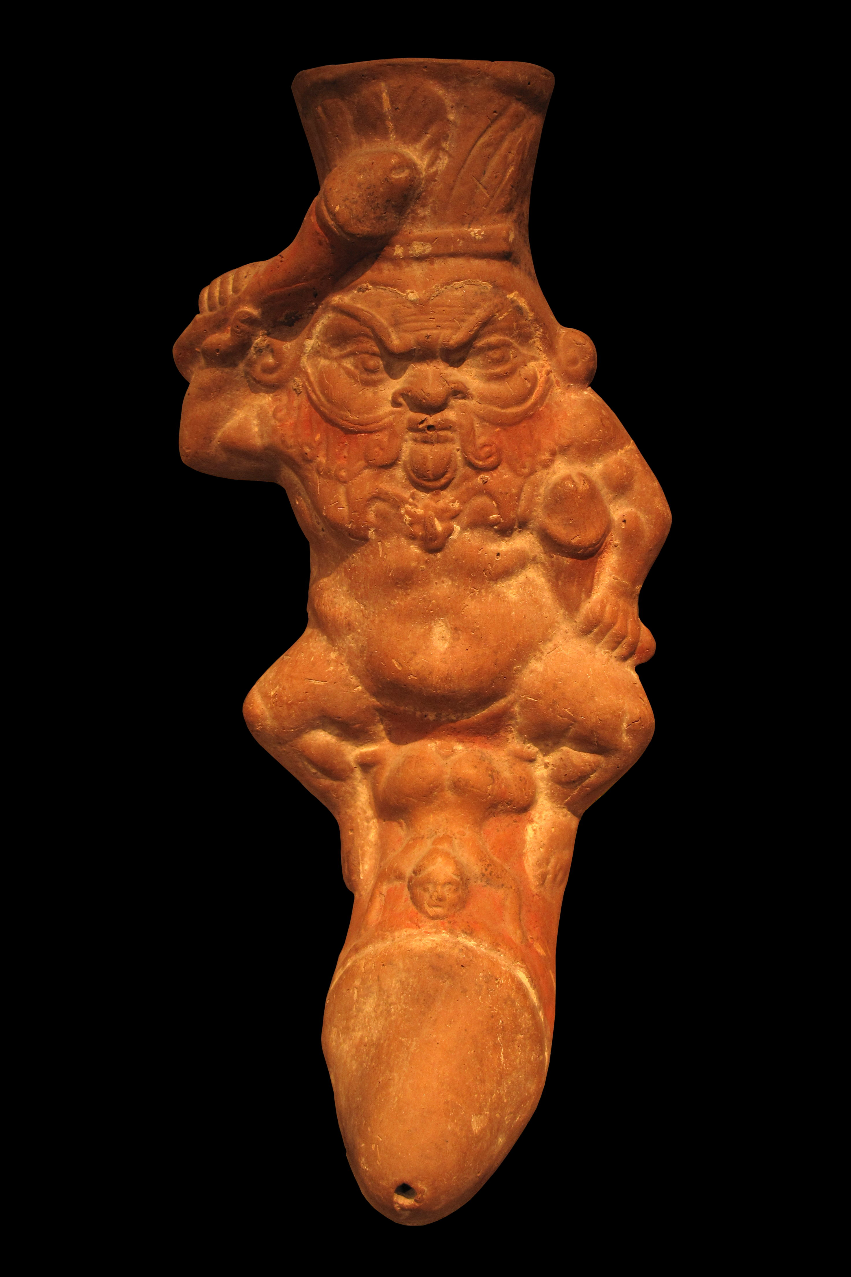 Rhyton representing an ithyphalic Bes. Painted terra cotta, ptolemaic era.